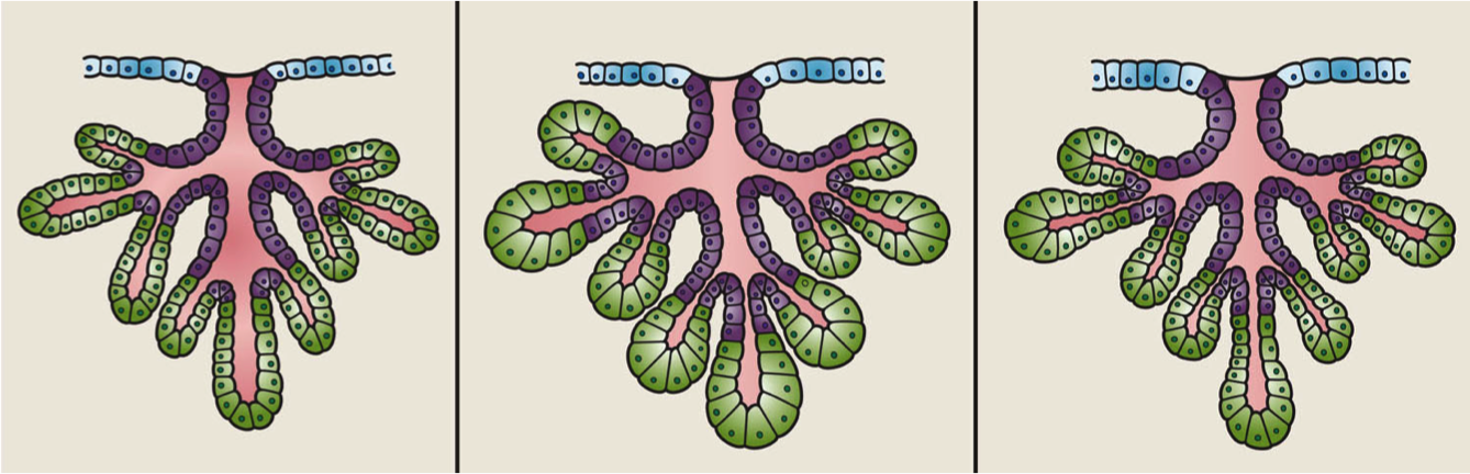 This image shows some of the various possible glandular arrangements. These are the compound tubular, compound acinar, and compound tubulo-acinar glands.